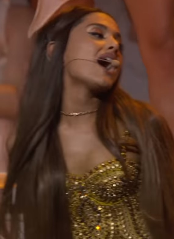 Ariana Grande performs "God Is A Woman" at the 2018 Video Music Awards in New York City.